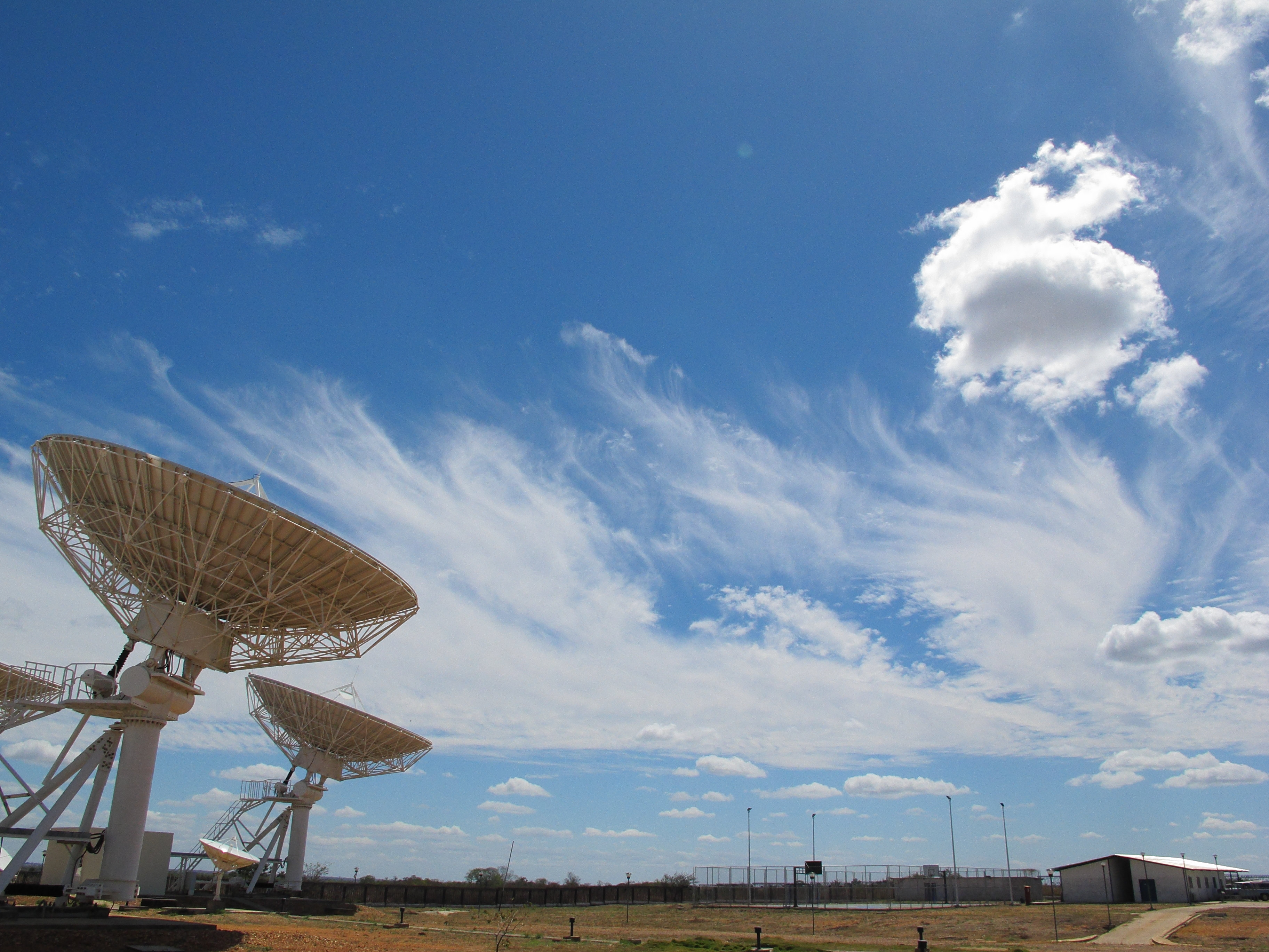 Satellite control station, El Sombrero, Guarico